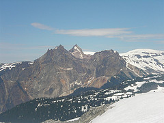 Southwest flank of the Mount Cayley massif.